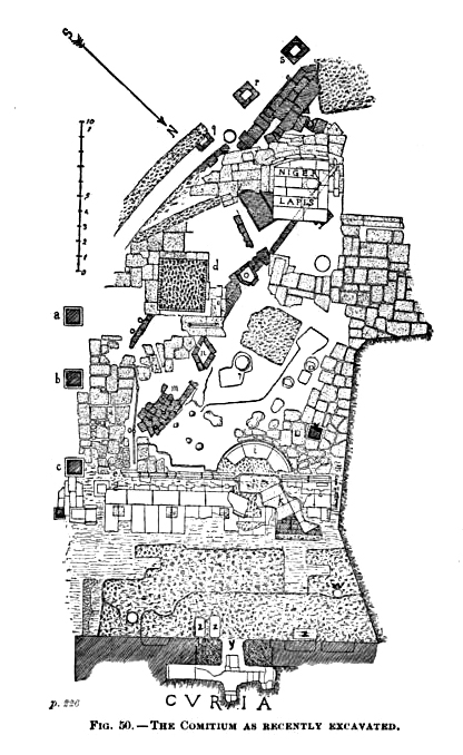 scetch of dig of the Imperial comitium